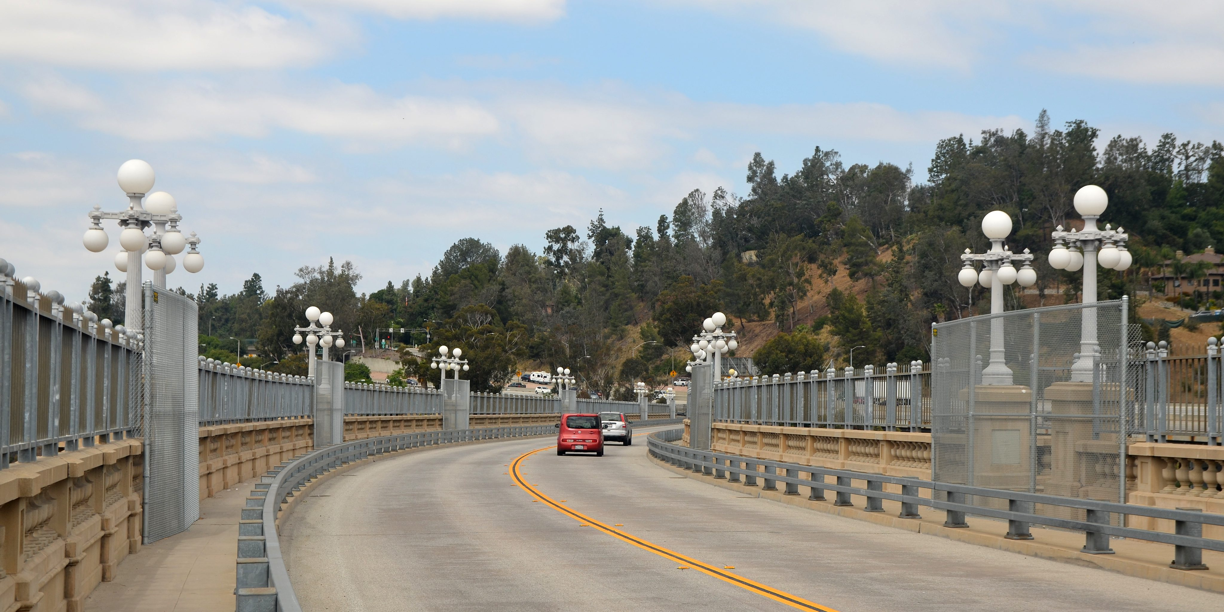 Roadway of the Colorado Street Bridge in Pasadena, California, facing west.